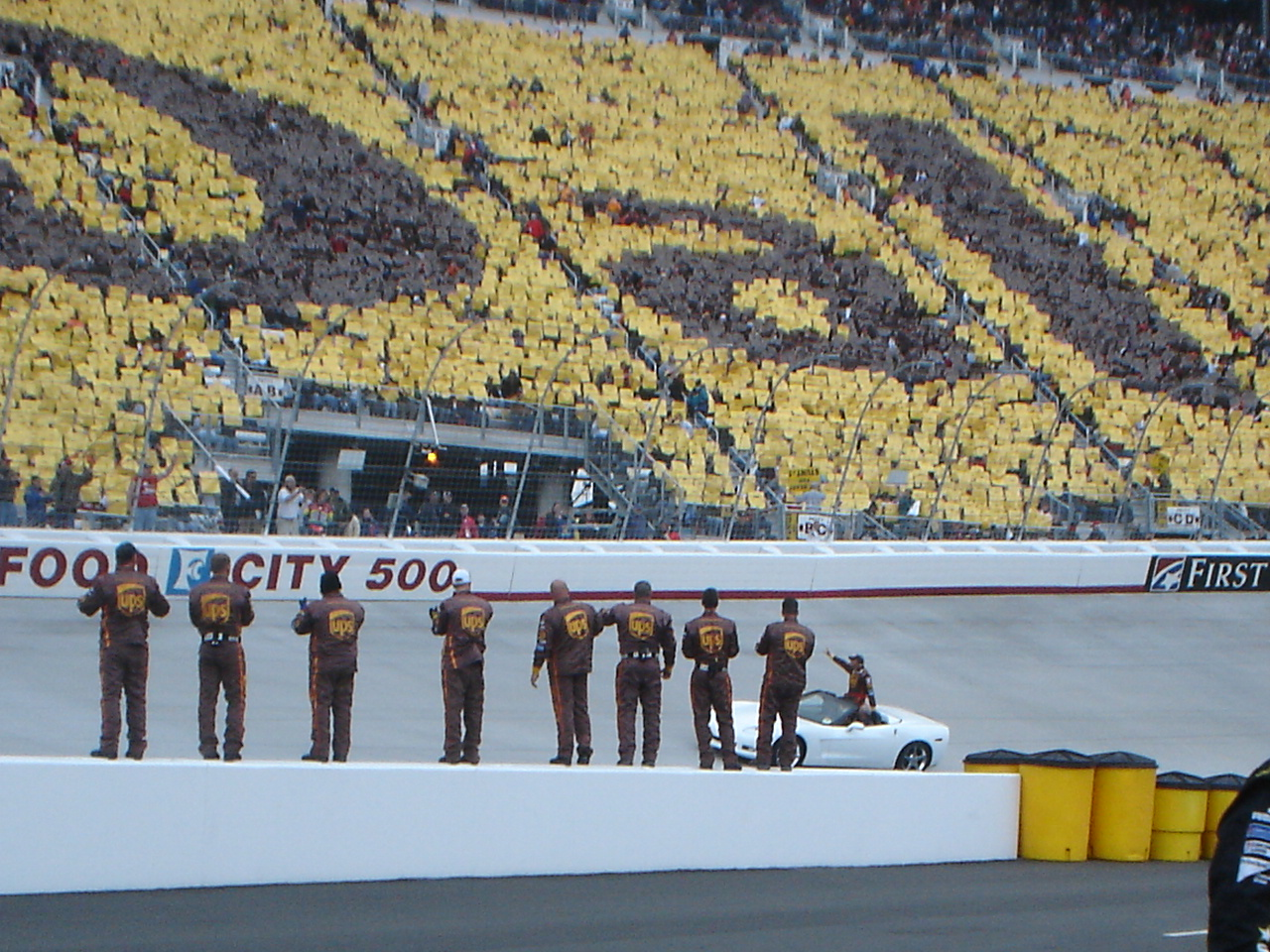 Dale Jarret riding in a show car around Bristol Motor Speedway before his last NASCAR race while his crew applauds him. The former champion was saluted by the crowd with his name spelled out in the color of his sponsor UPS.